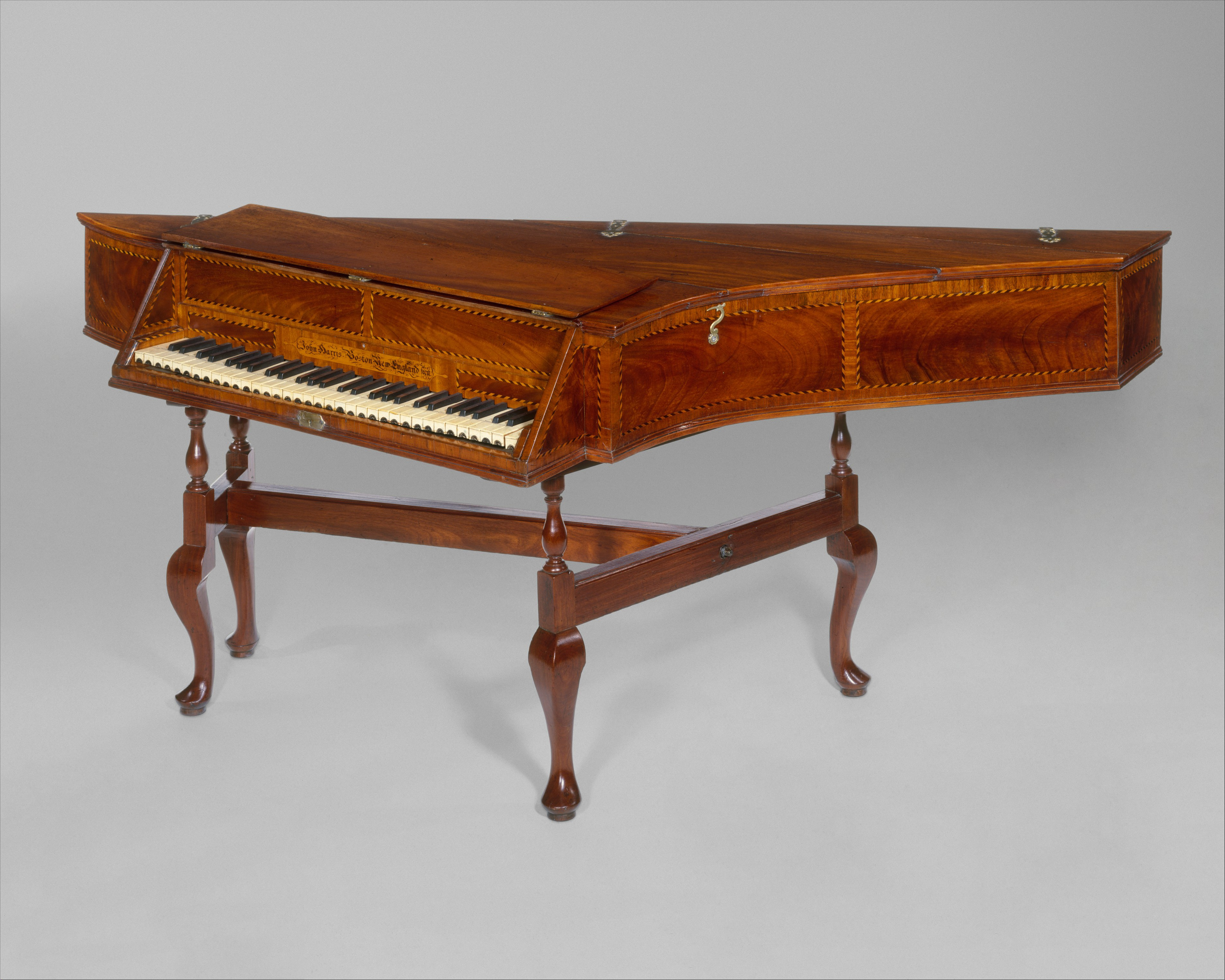 American; Bentside spinet; Furniture